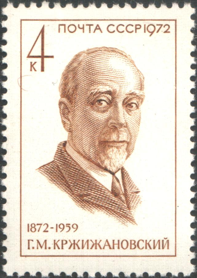 USSR stamp: Gleb Krzhizhanovsky (1872–1959), Scientist and Co-worker with Lenin (Birth Centenary). Series: Outstanding Workers of the Communist Party of the Soviet Union and for the State. Birth Anniversaries